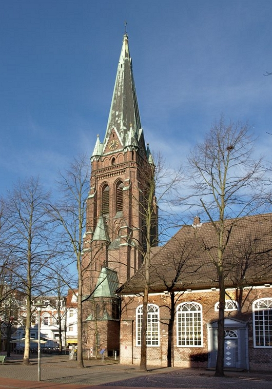 Church St. Nikolai, tower, Elmshorn, Germany